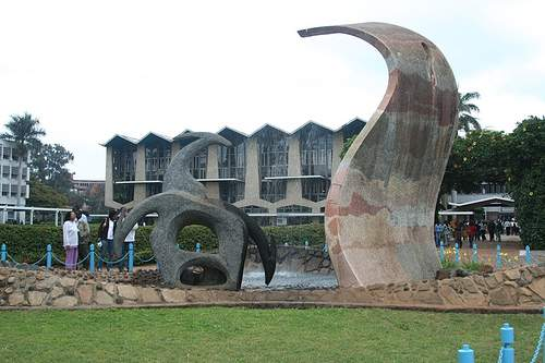 The University of Nairobi. A view from the main quadrangle. 1956: inception with the establishment of the Royal Technical College which admitted its first lot of A-level graduates for technical courses in April the same year. 1961: The Royal Technical College was transformed into the second University College in. E. Africa under the name Royal College Nairobi. 1964: renamed University College Nairobi as a constituent college of the inter-territorial Federal University of East Africa, 1970, the University College Nairobi transformed into the first national university in Kenya and was renamed the University of Nairobi.